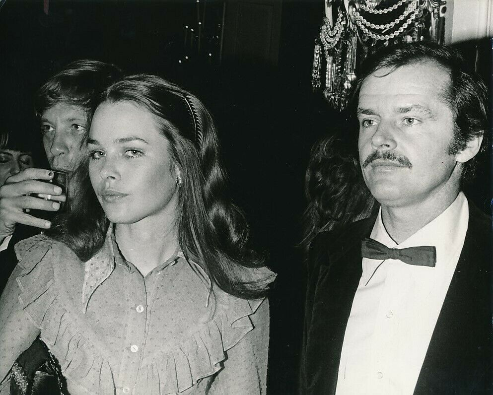 Michelle Phillips and Jack Nicholson photographed at the 1971 Golden Globes